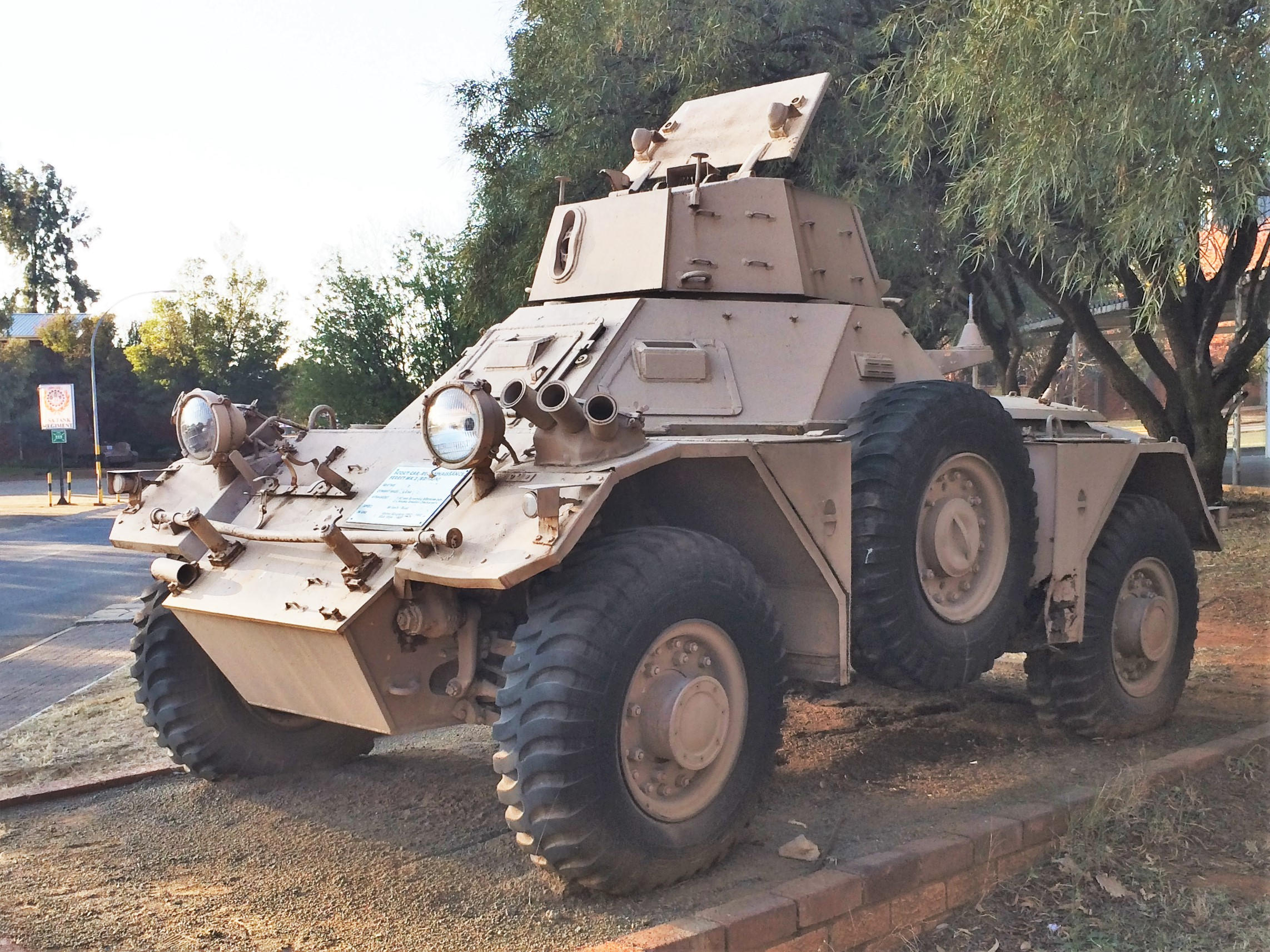 Cropped version of a previous Commons image. Daimler Ferret. Cropped for an article specifically on the vehicle. Limited contextual relevance to original work.